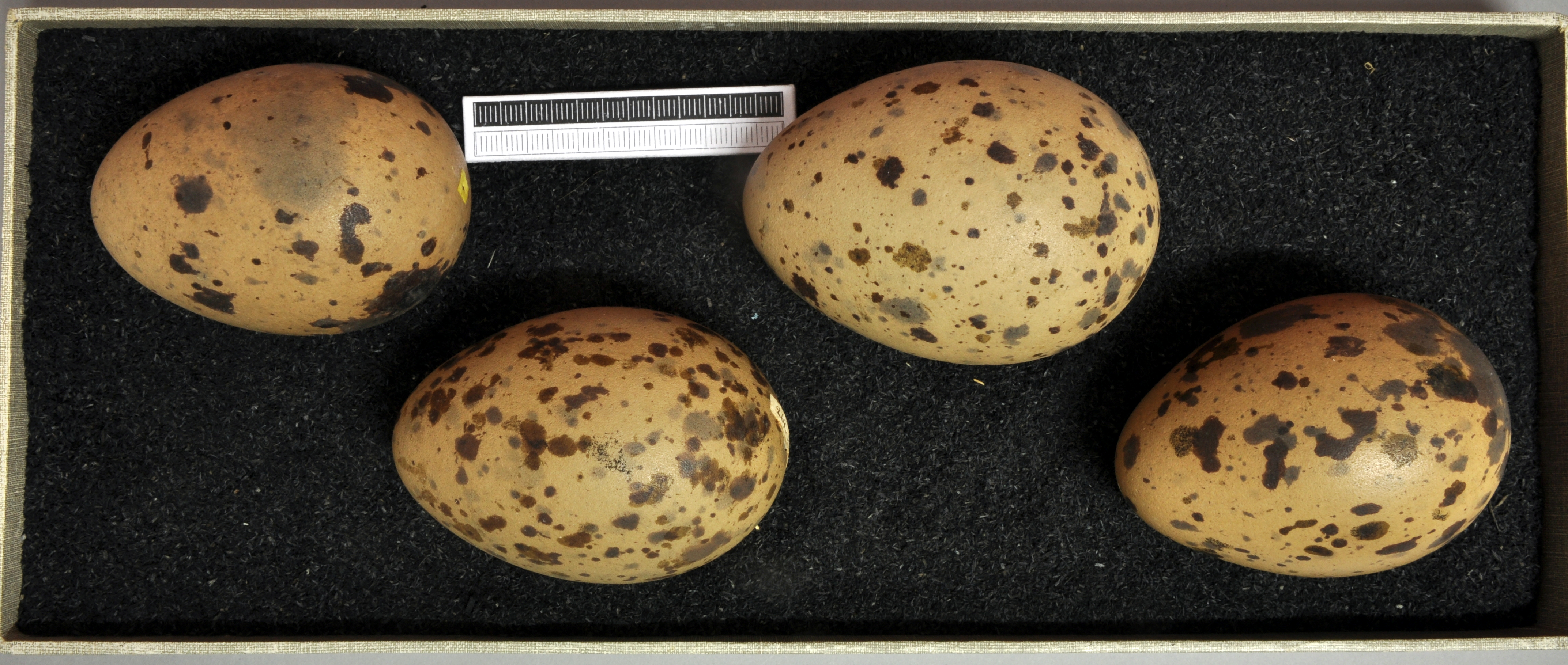 Great black-backed gull Larus marinus , egg, Coll. Museum Wiesbaden